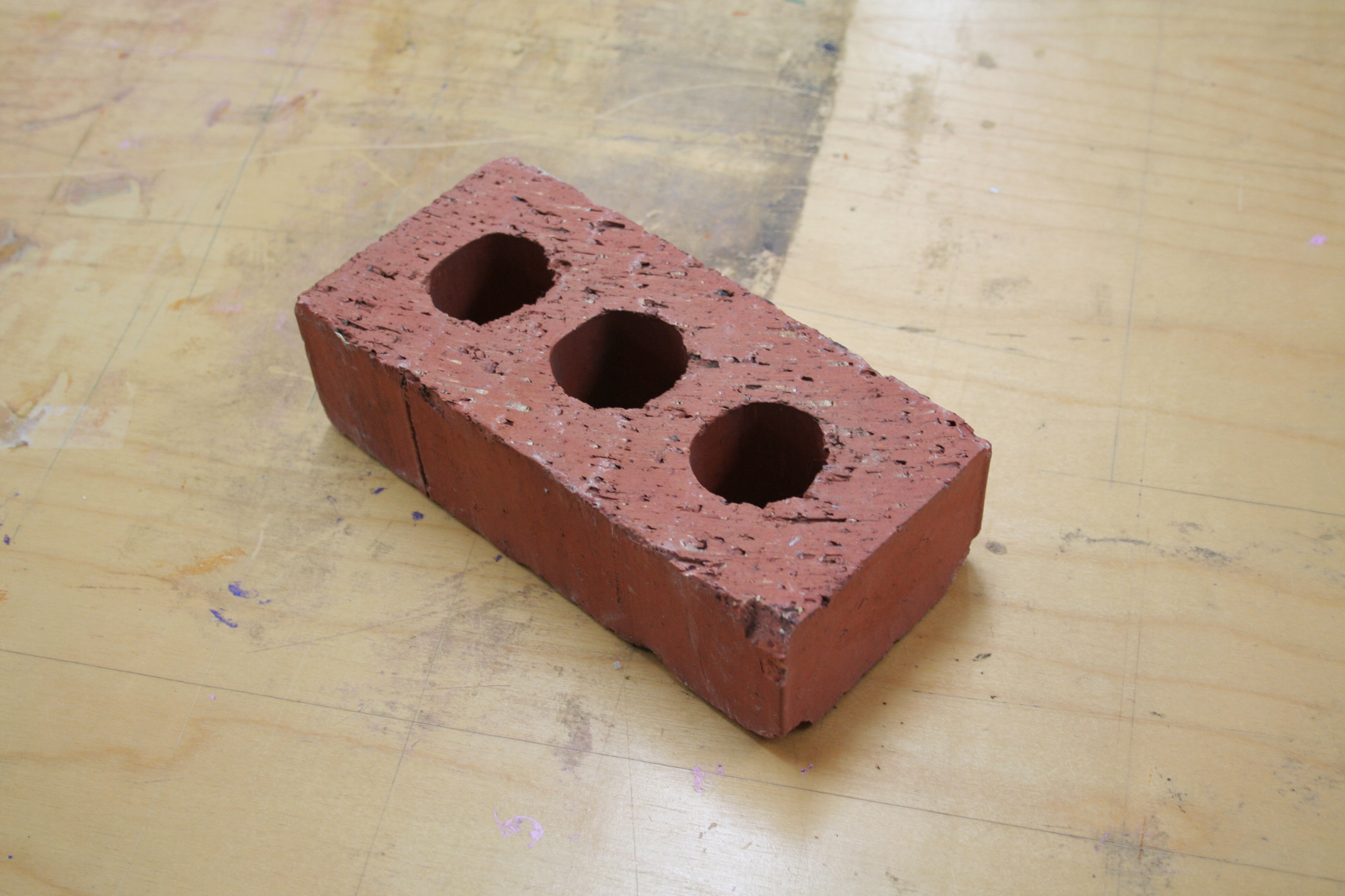 a brick